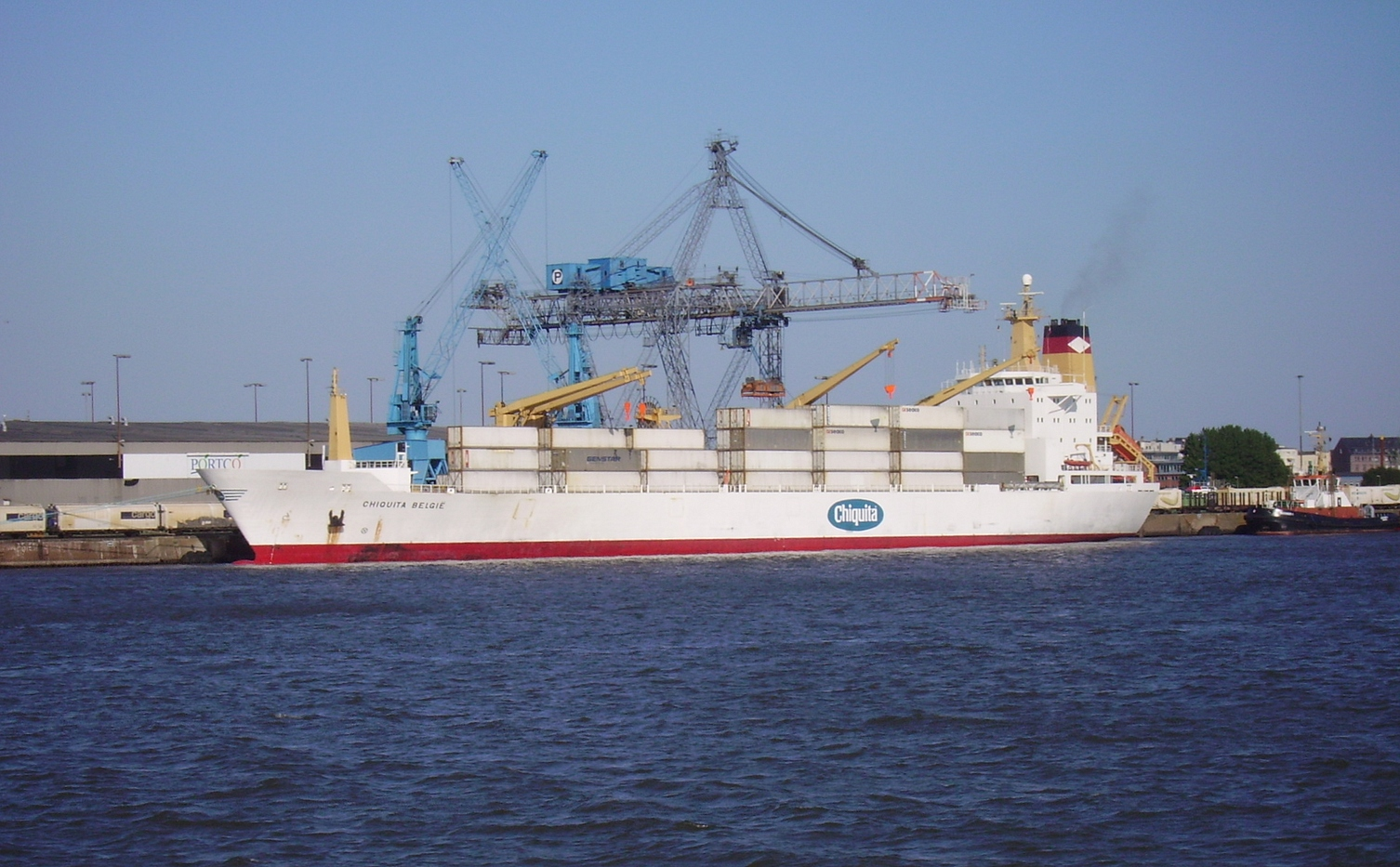 The reefer ship "Chiquita België" in Bremerhaven, Germany